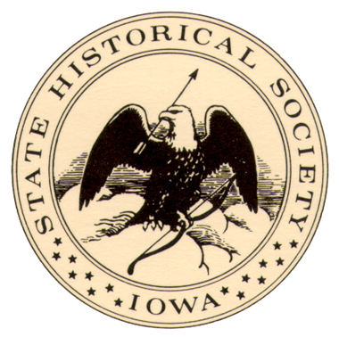 Old seal of the State Historical Society of Iowa, 1857. This seal is no longer used by SHSI